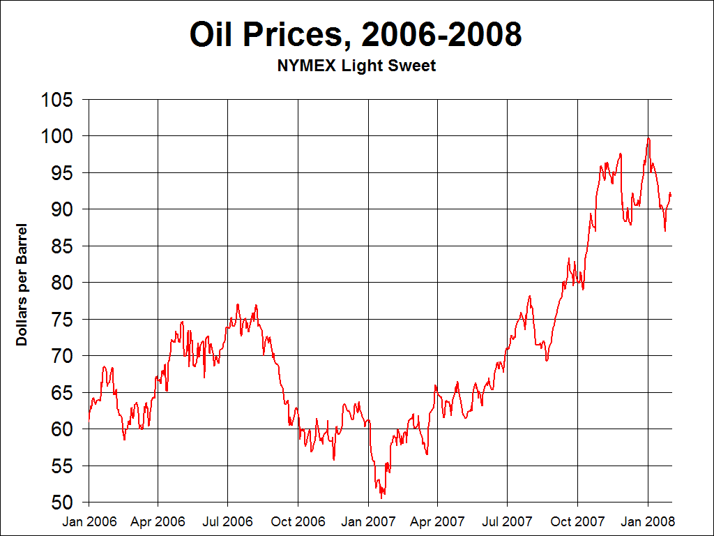 Daily oil prices of NYMEX Light Sweet Crude, prepared from data at